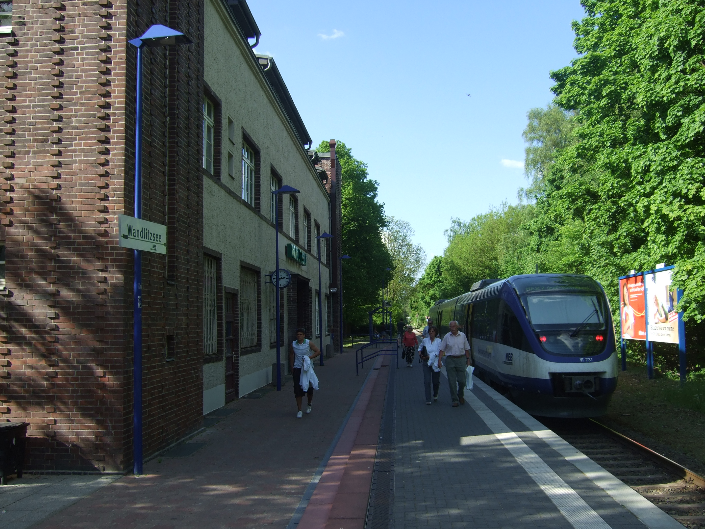 "Heidekrautbahn" in train station "Wandlitzsee" in Wandlitz, Brandenburg, Germany.